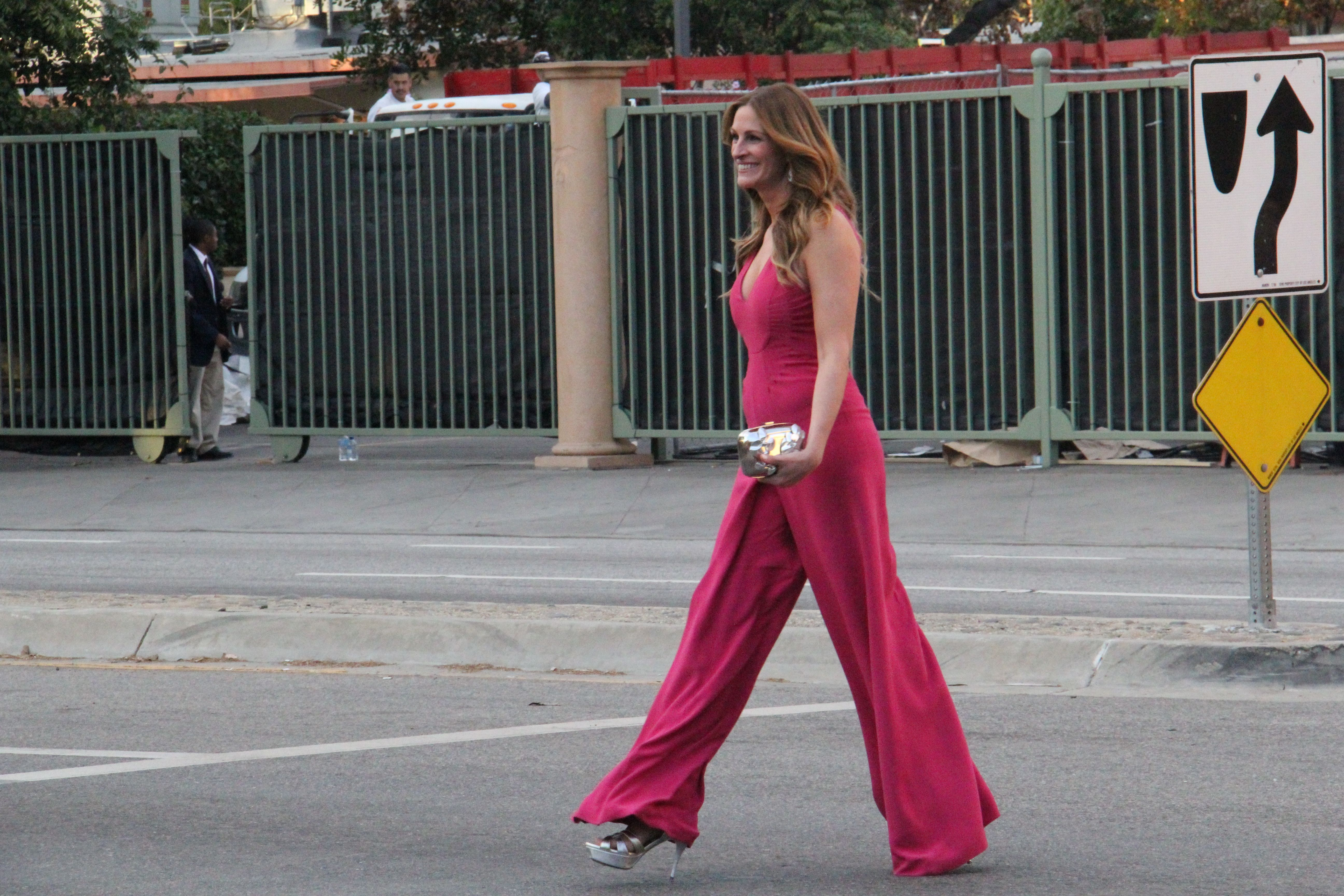 Julia Roberts At The 2014 SAG Awards